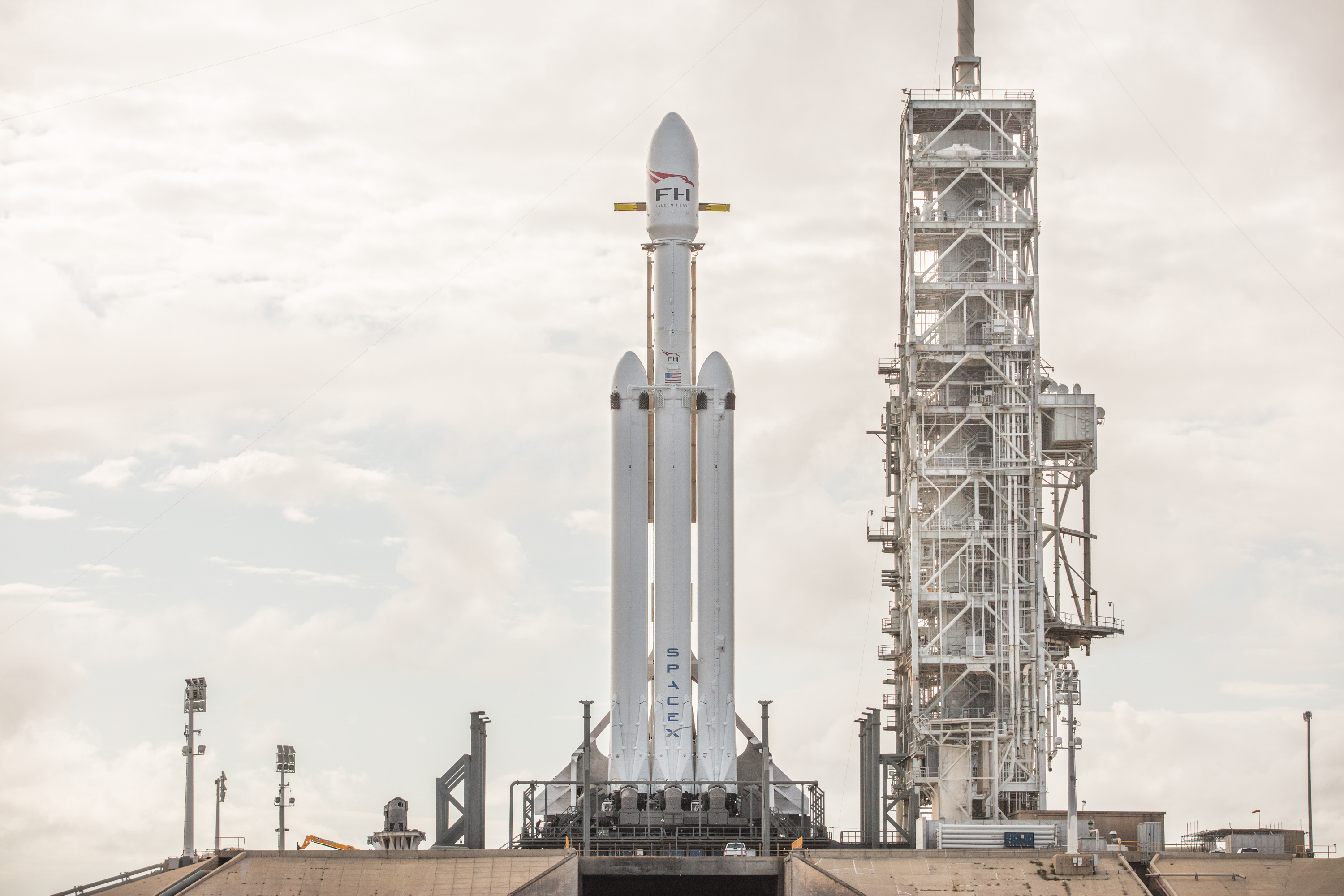 Falcon Heavy Demonstration Mission